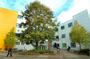 The front of the Glamorgan Business School, University of Glamorgan, Wales.